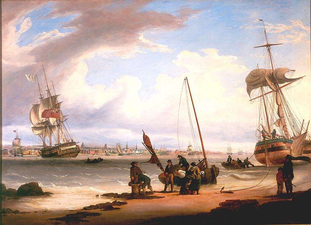 Shipping in Liverpool Harbour, by Robert Salmon.